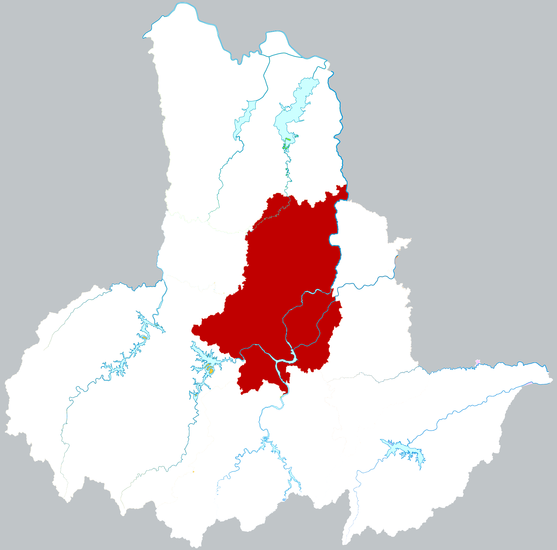 Location of Yu'an district in Lu'an city, China